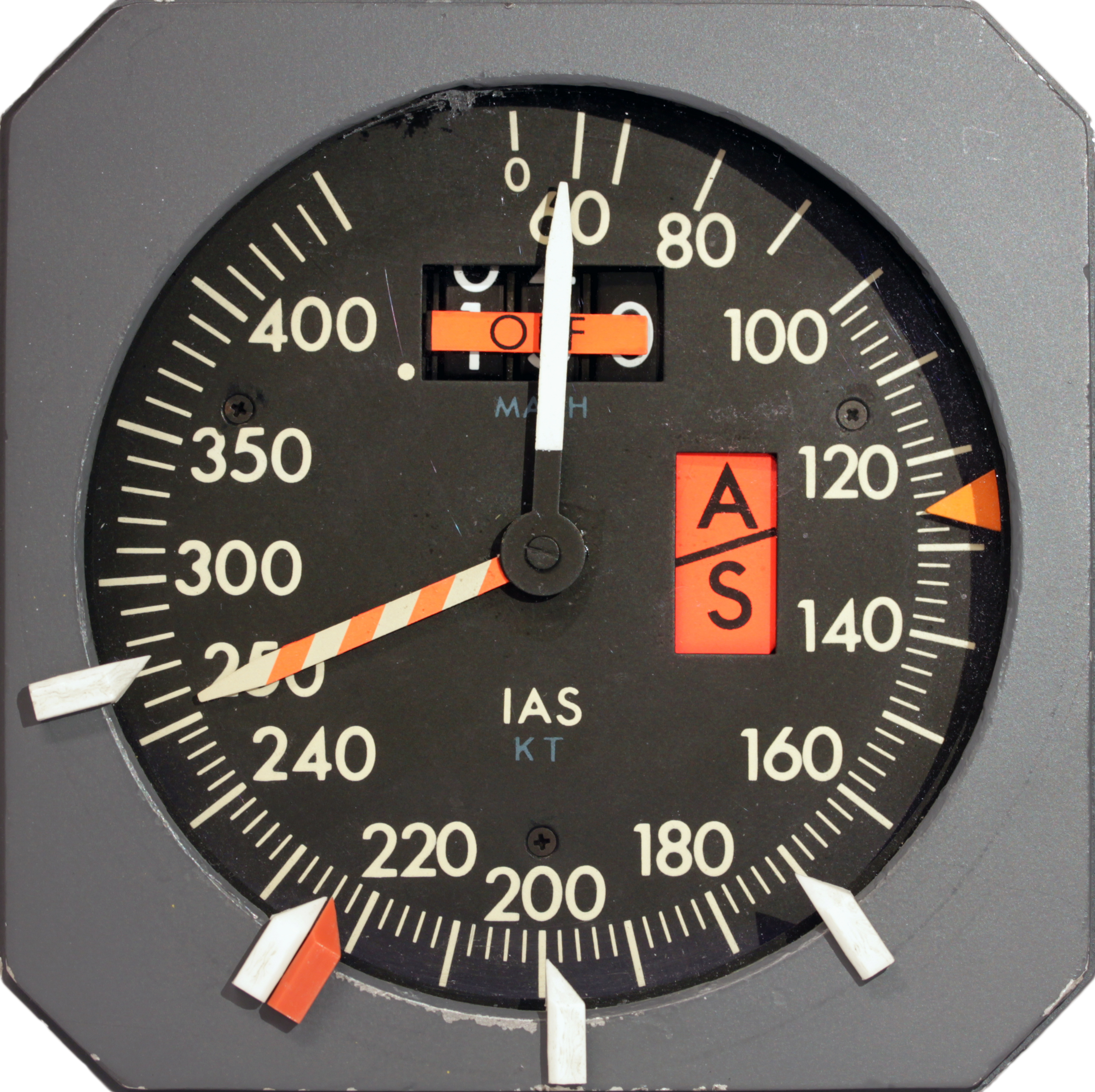 Airspeed indicator of a large jet aircraft (DC-10).